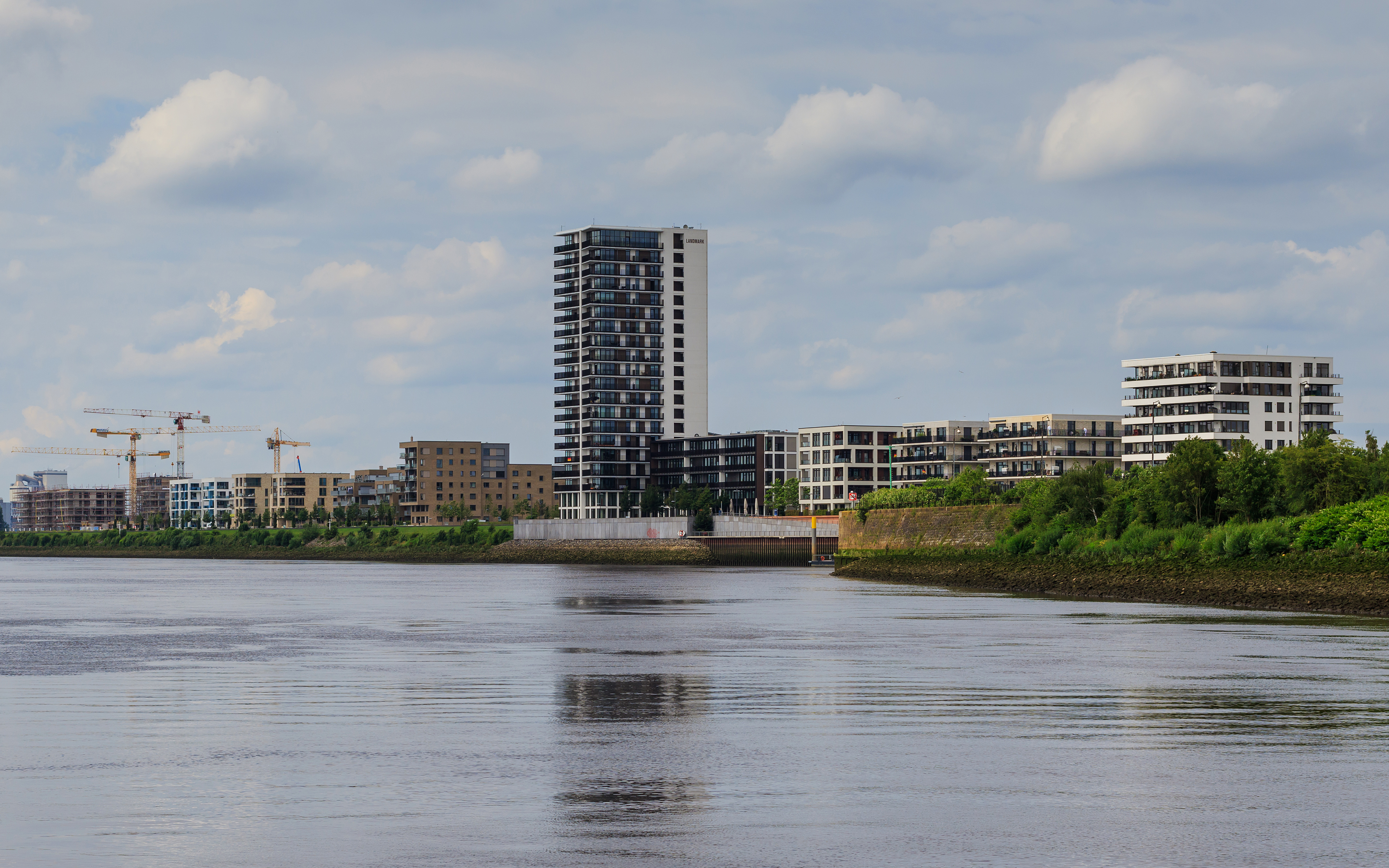 The Overseas City in Bremen, Germany